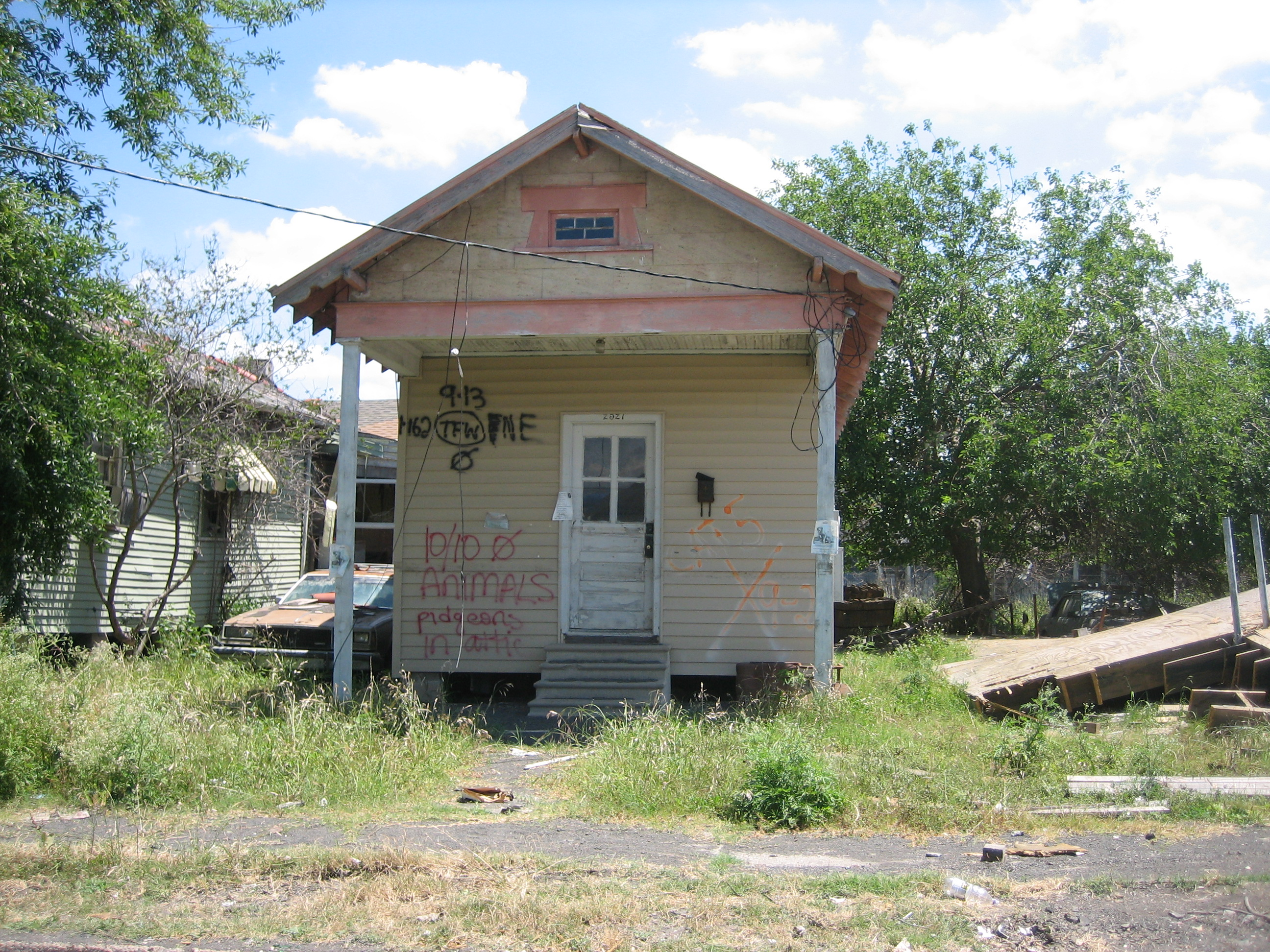 New Orleans after Hurricane Katrina: Scene in formerly flood section of the Upper 9th Ward. "Shotgun" style house with search & rescue teams; standard human search markings, and marking from animal rescue group noting "pidgeons (sic) in attic".